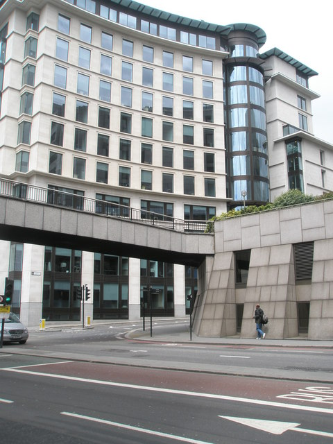 Looking across from Lower Thames to Arthur Street. The office building ahead is 12 Arthur Street, completed circa 2004.